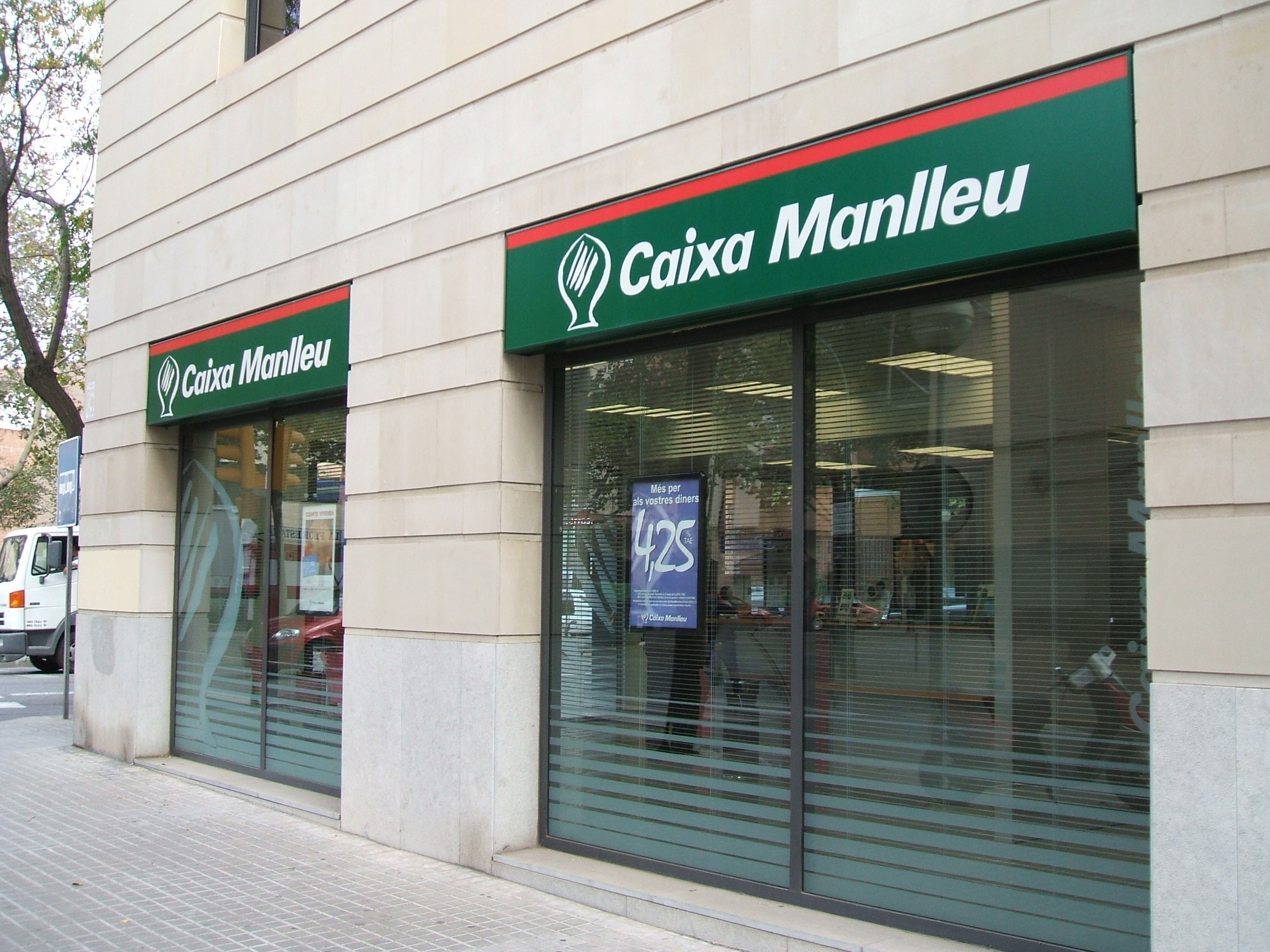 Caixa Manlleu branch in Sabadell; see also Savings bank (Spain).